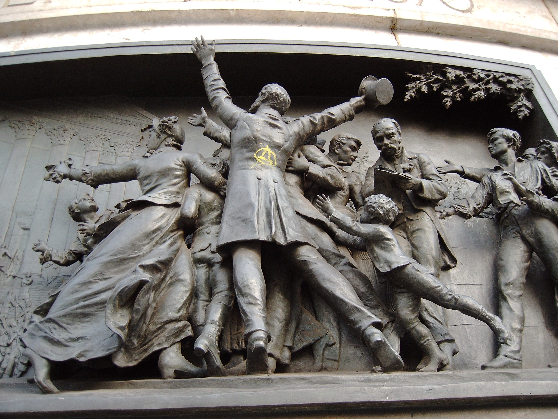 Proclamation of the Republic